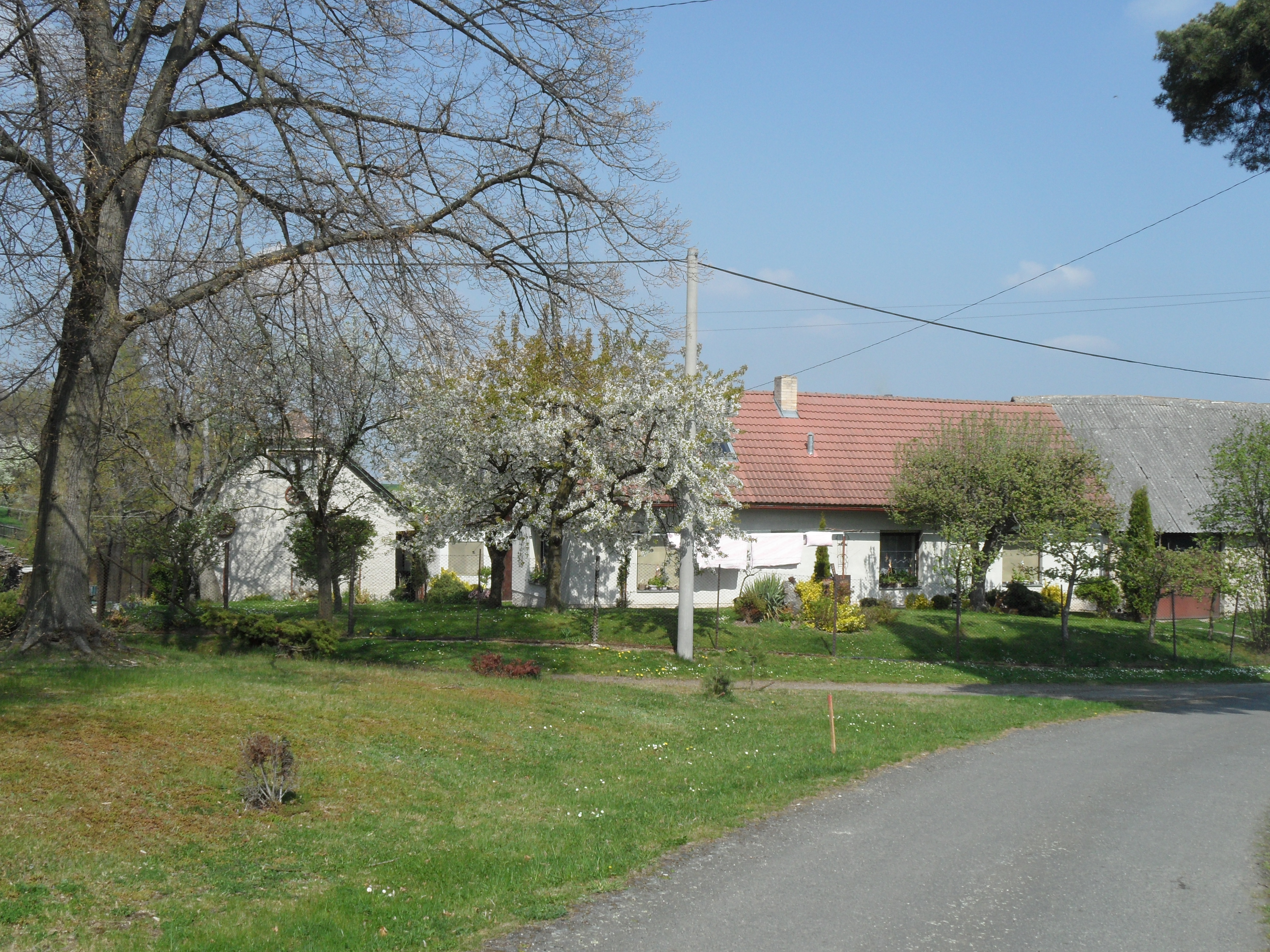 Lomeček. C. Houses at Village Square, Kutná Hora District, the Czech Republic.